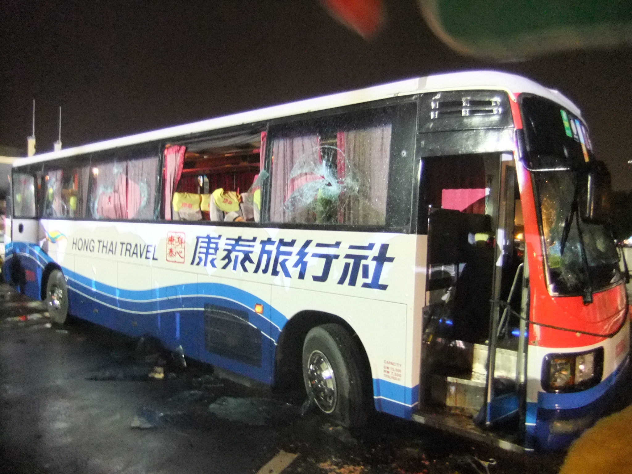 The bus of 2010 Manila hostage crisis with a Mitsubishi Fuso Aero Bus unit was imported from Japan.